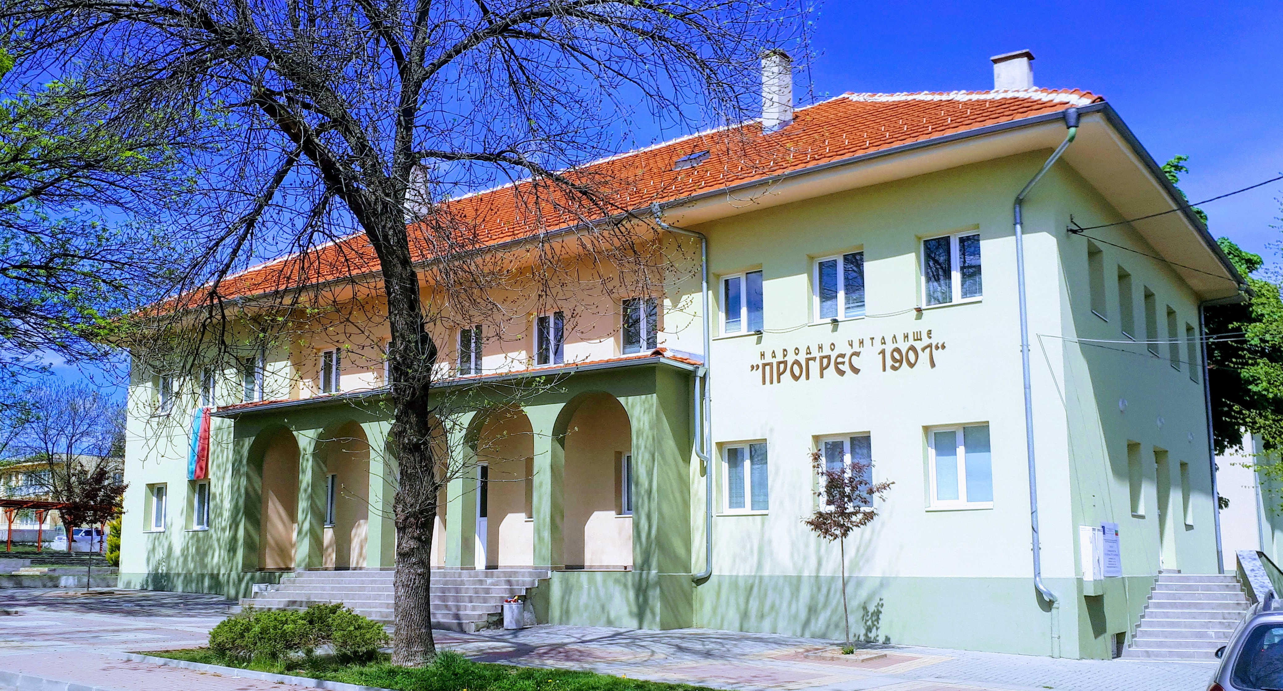 Old public building for culture Progress